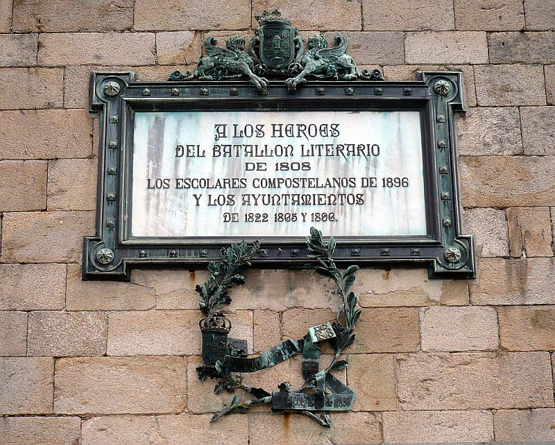 Plaque to commemorate the efforts of the Literary Battalion of 1808 in Santiago de Compostela